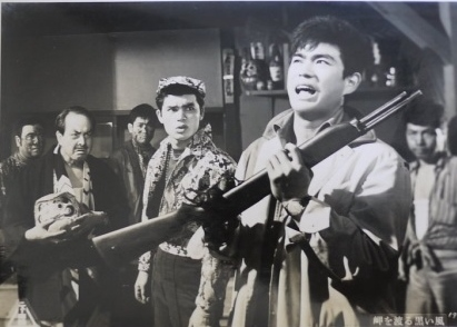 Still life photography of "'Wandering Detective: Black Wind in the Harbor'" (1961)